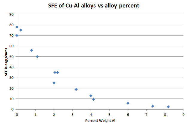 This graph shows how the stacking fault energy of copper decreases with increasing aluminum alloy content.